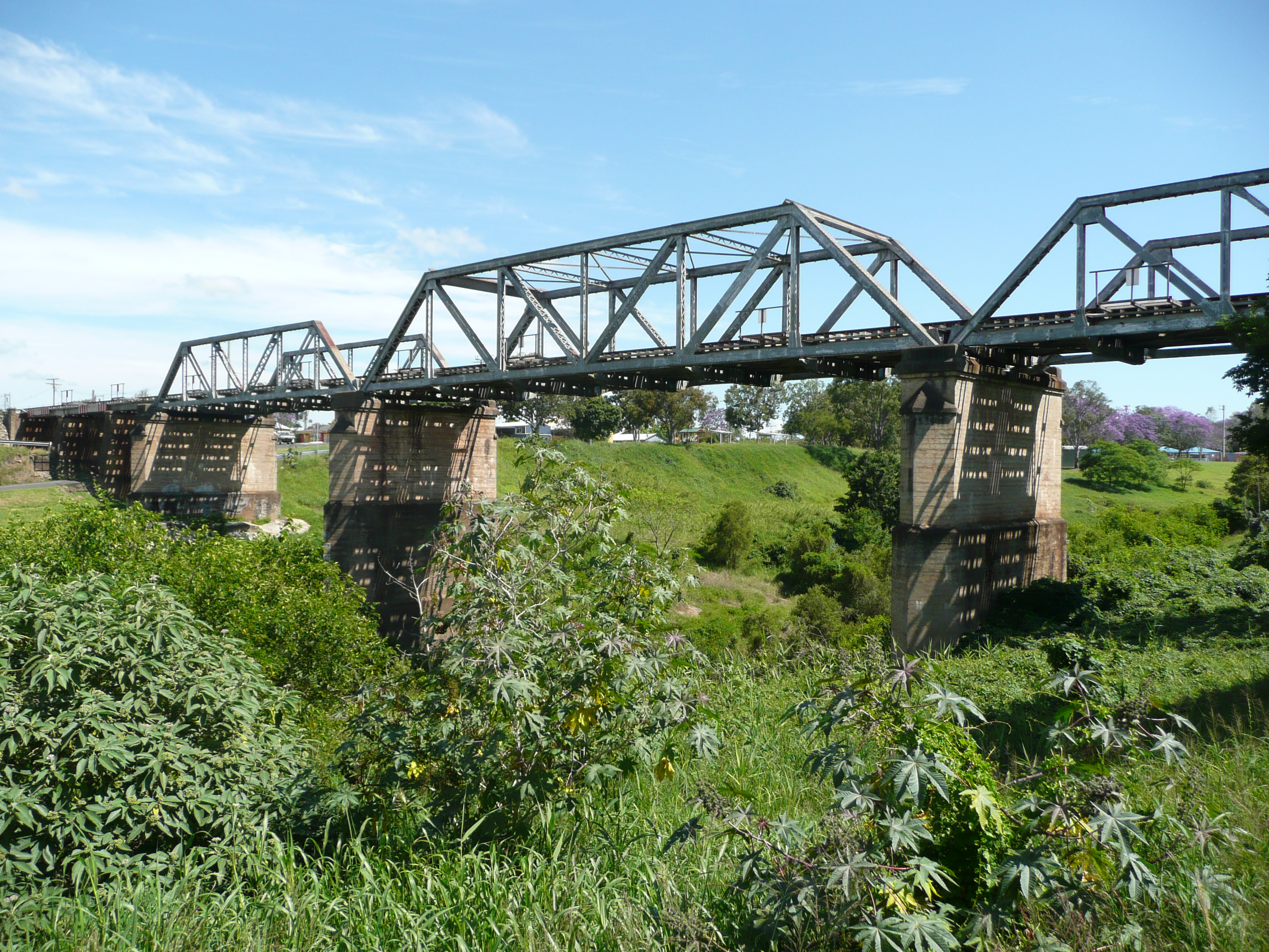 Gatton Railway Bridge over Lockyer Creek showing the Pratt truss design